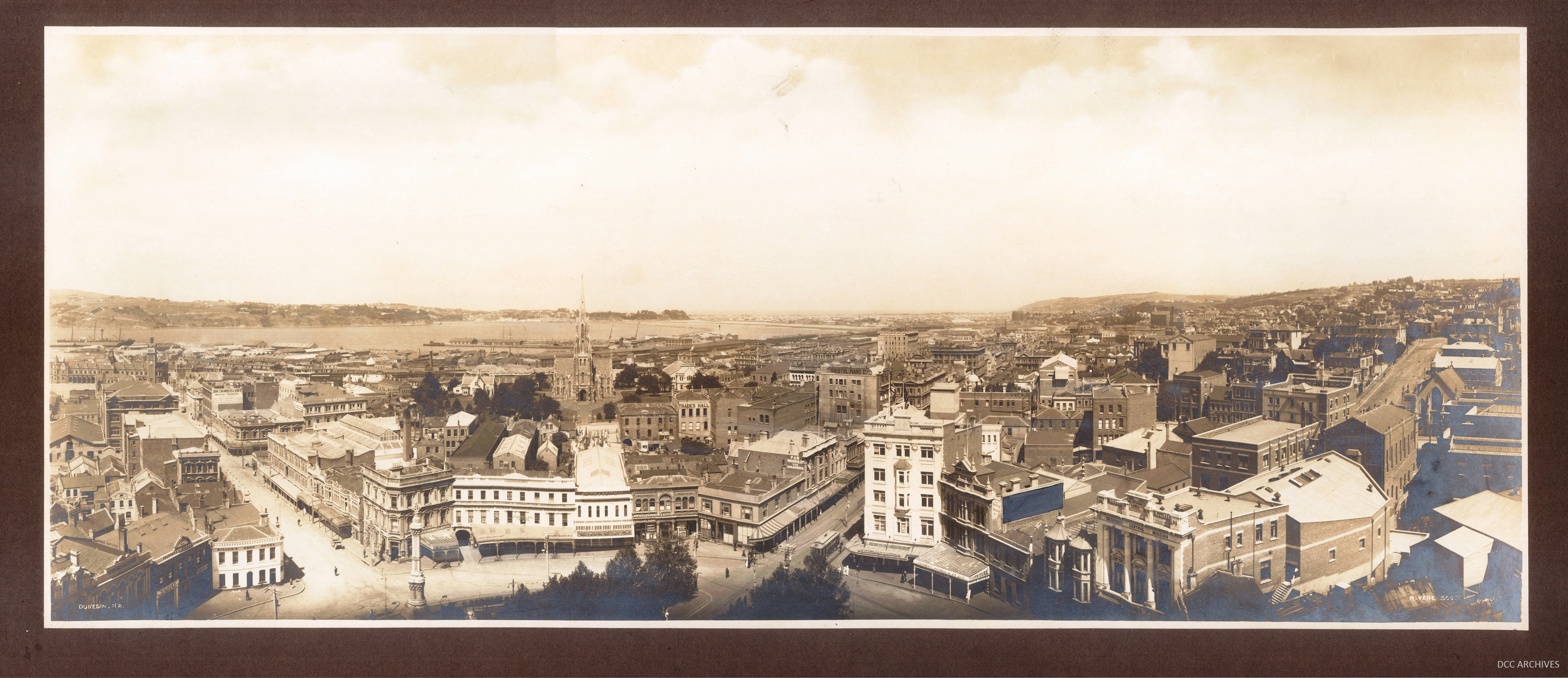 DCC Archives, Photo 178.